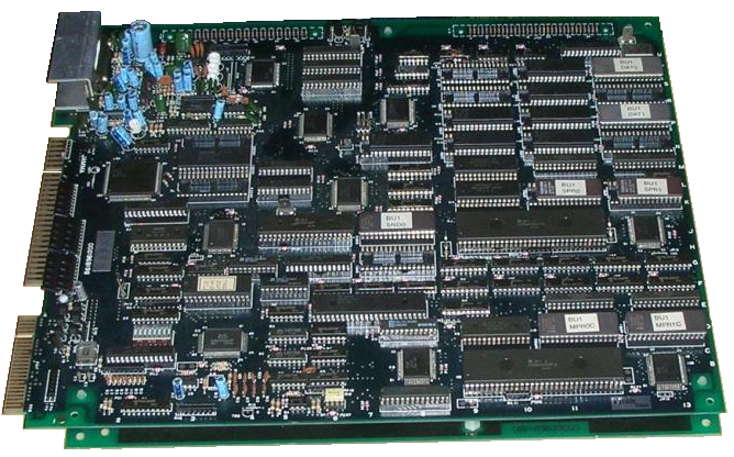 Burning Force arcade game board